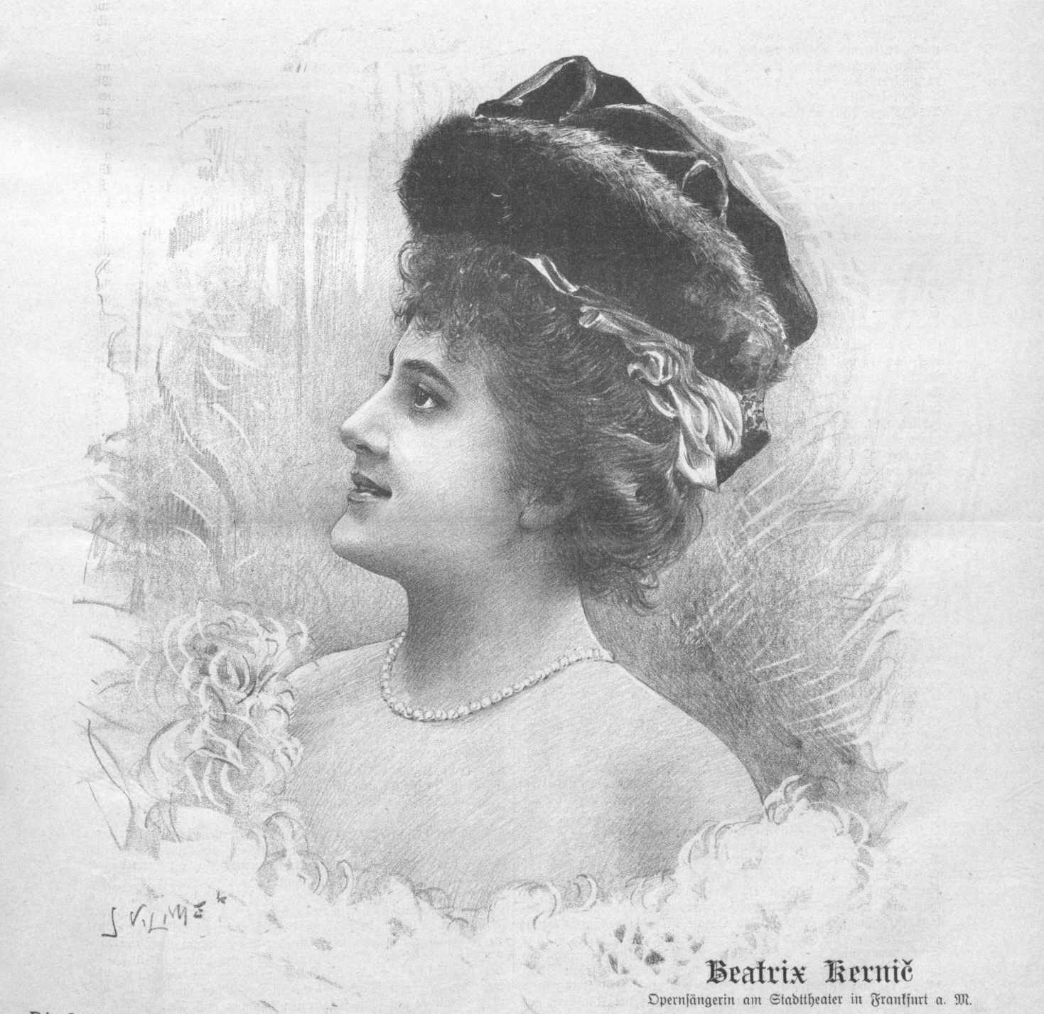 Portrait of Beatrix Kernic (1870-1947), Austrian opera singer of Croatian origin.